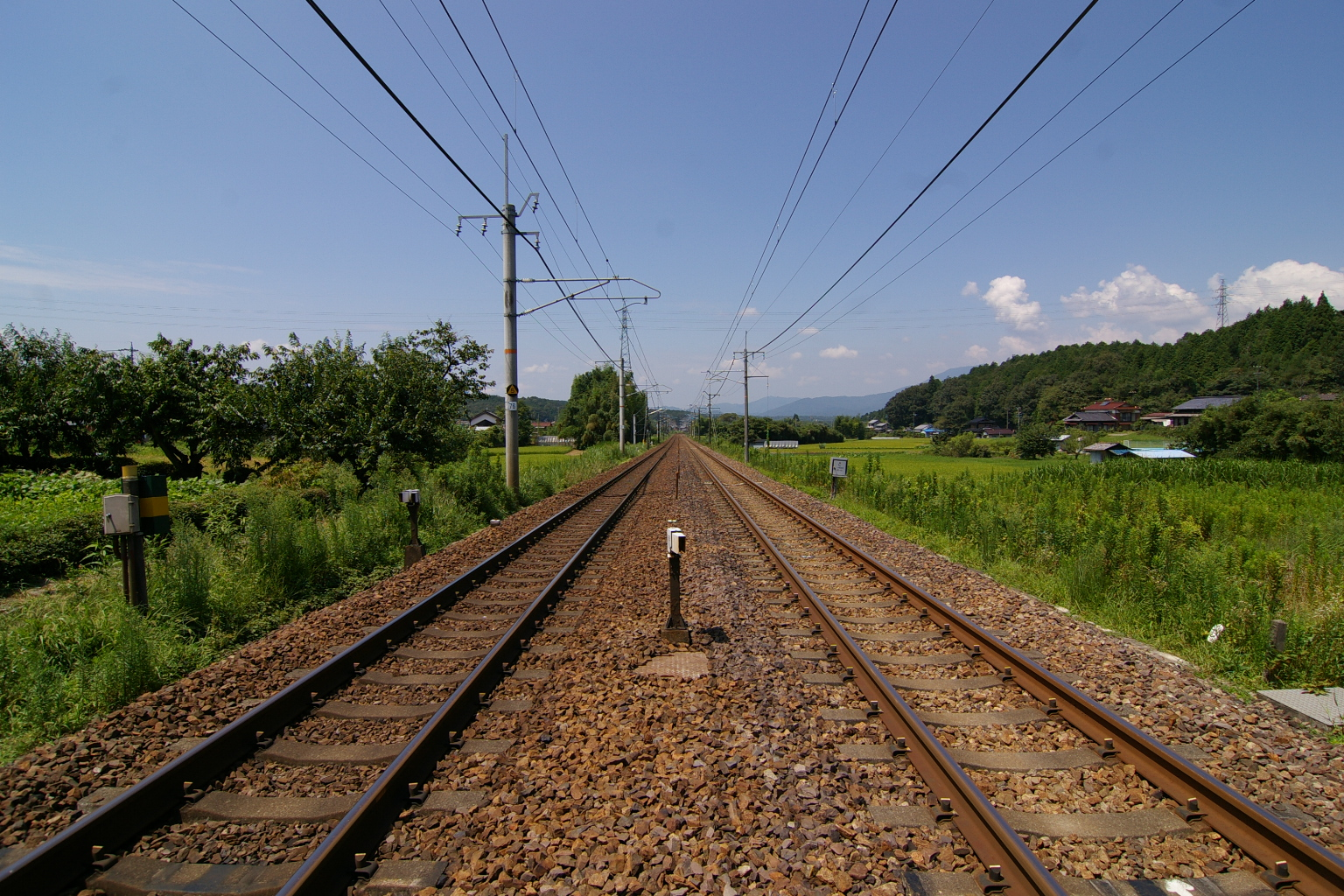 Landscapes in Agi (Agi, Nakatsugawa City, Gifu Pref., Japan)